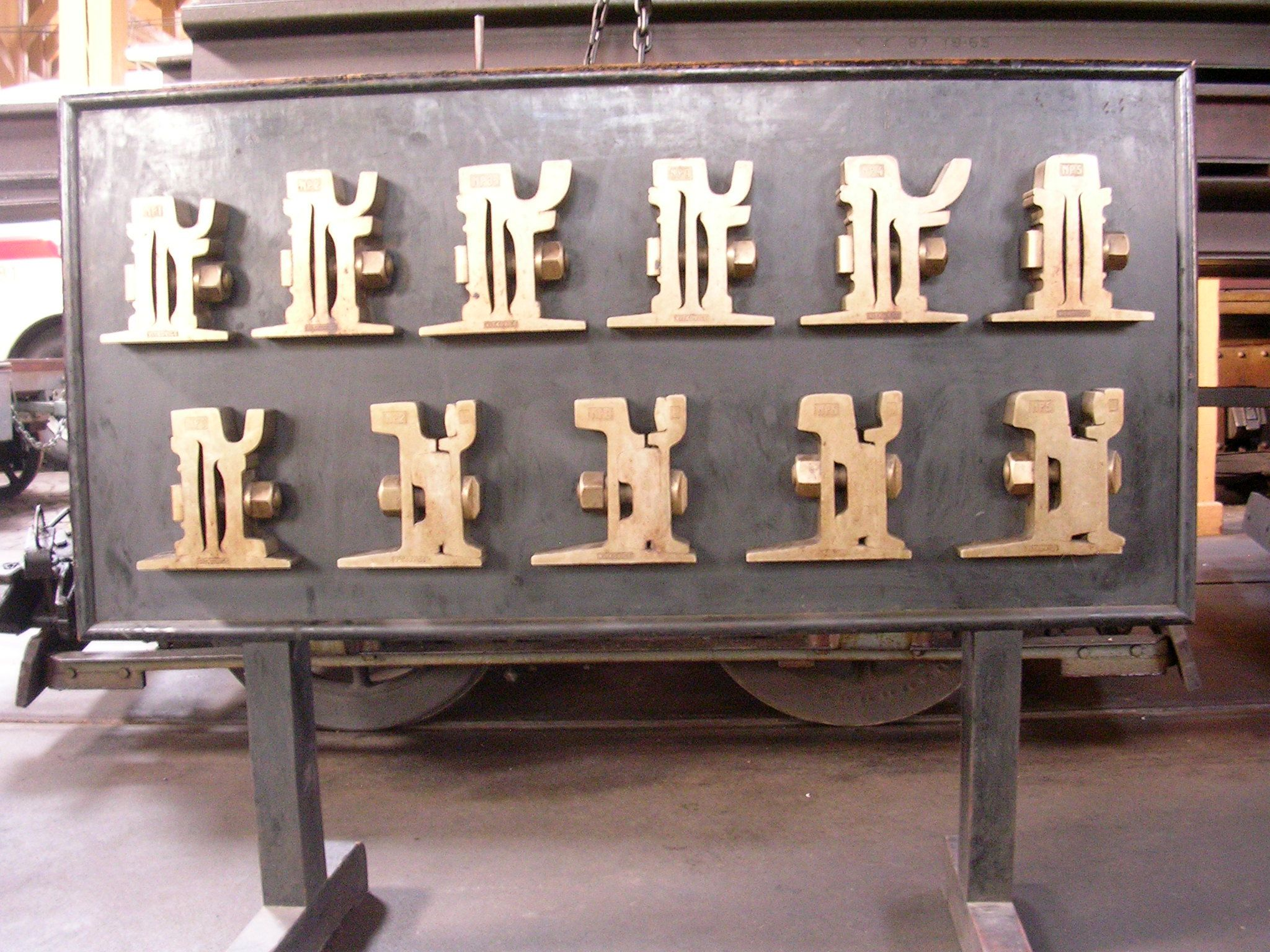 Střešovice, Prague, the Czech Republic. Tram rail track profiles.